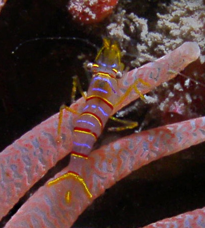 Lebbeus grandimanus (candy stripe shrimp) on the crimson anemone ( Cribrinopsis fernaldi).